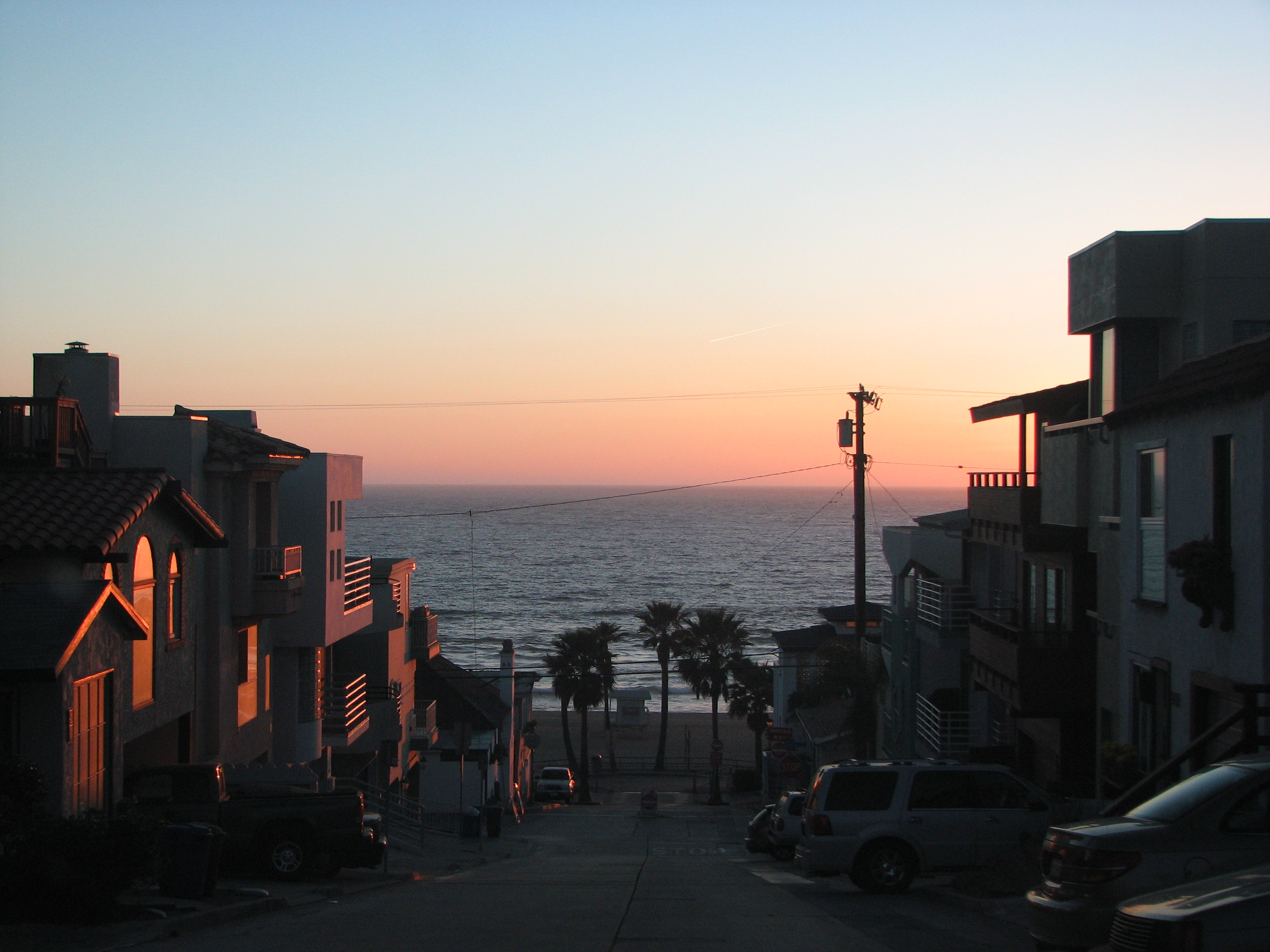 Houses close to the shore, Manhattan Beach, CA